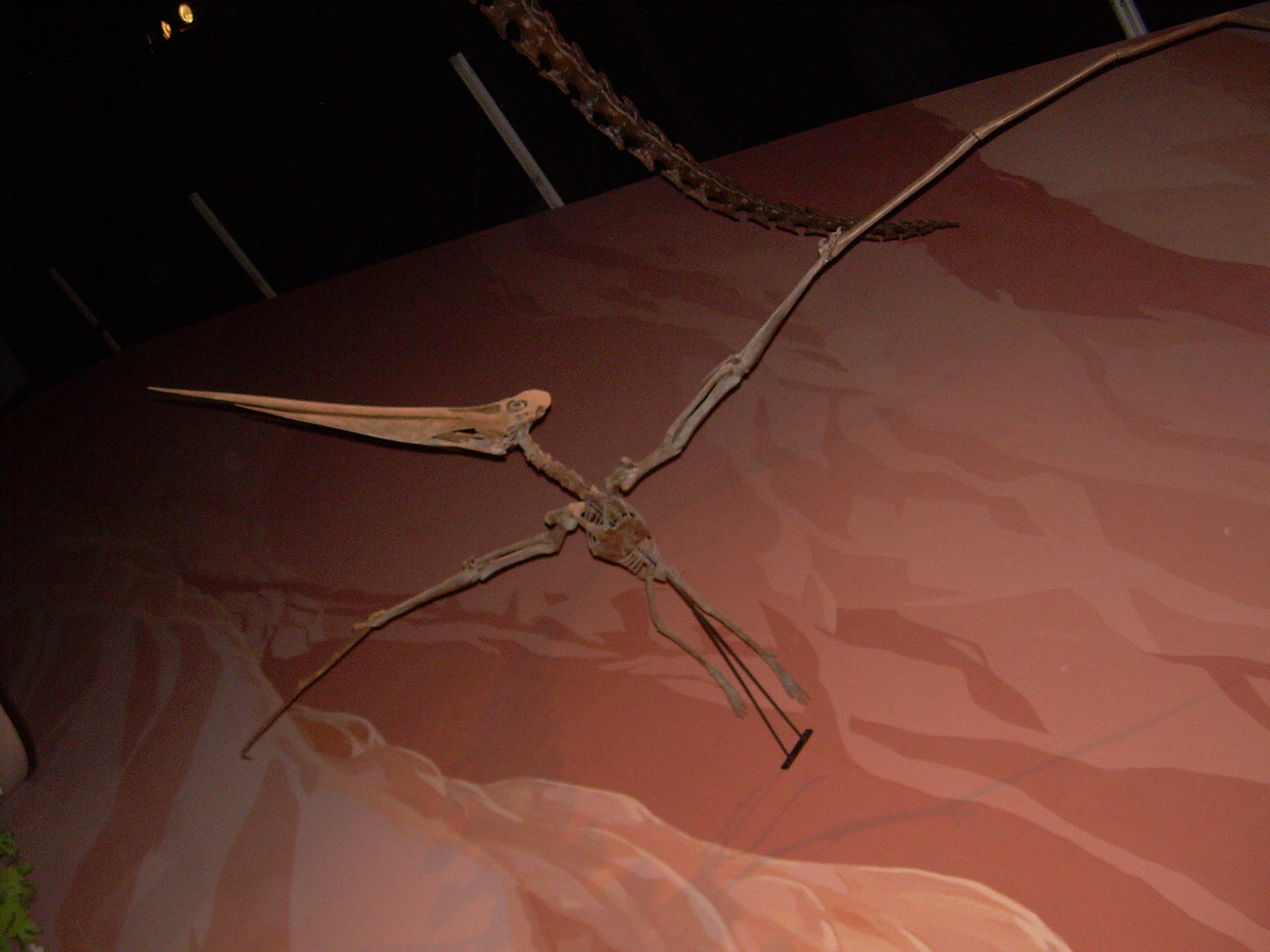 Photograph of a fossil cast of a Geosternbergia skeleton taken at the North American Museum of Ancient Life.